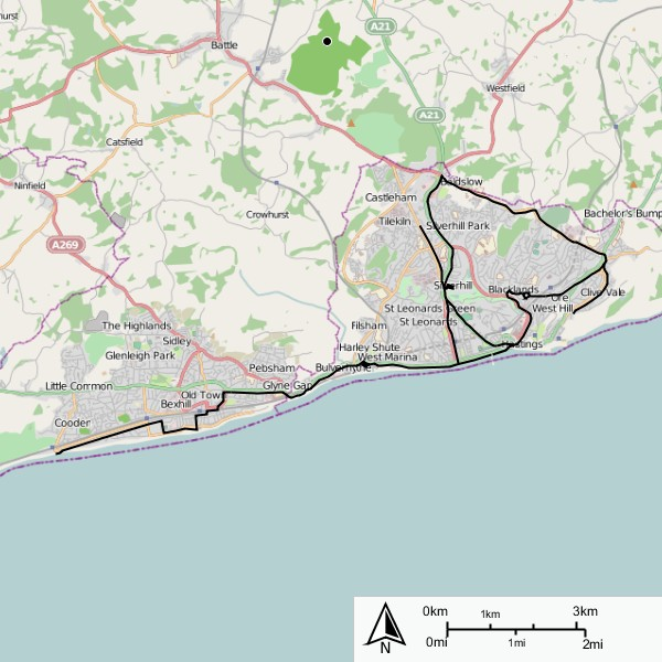 Hastings and District Electric Tramways Legend: *━━━ Primary lines